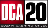 WDCA Logo, January to May 2006